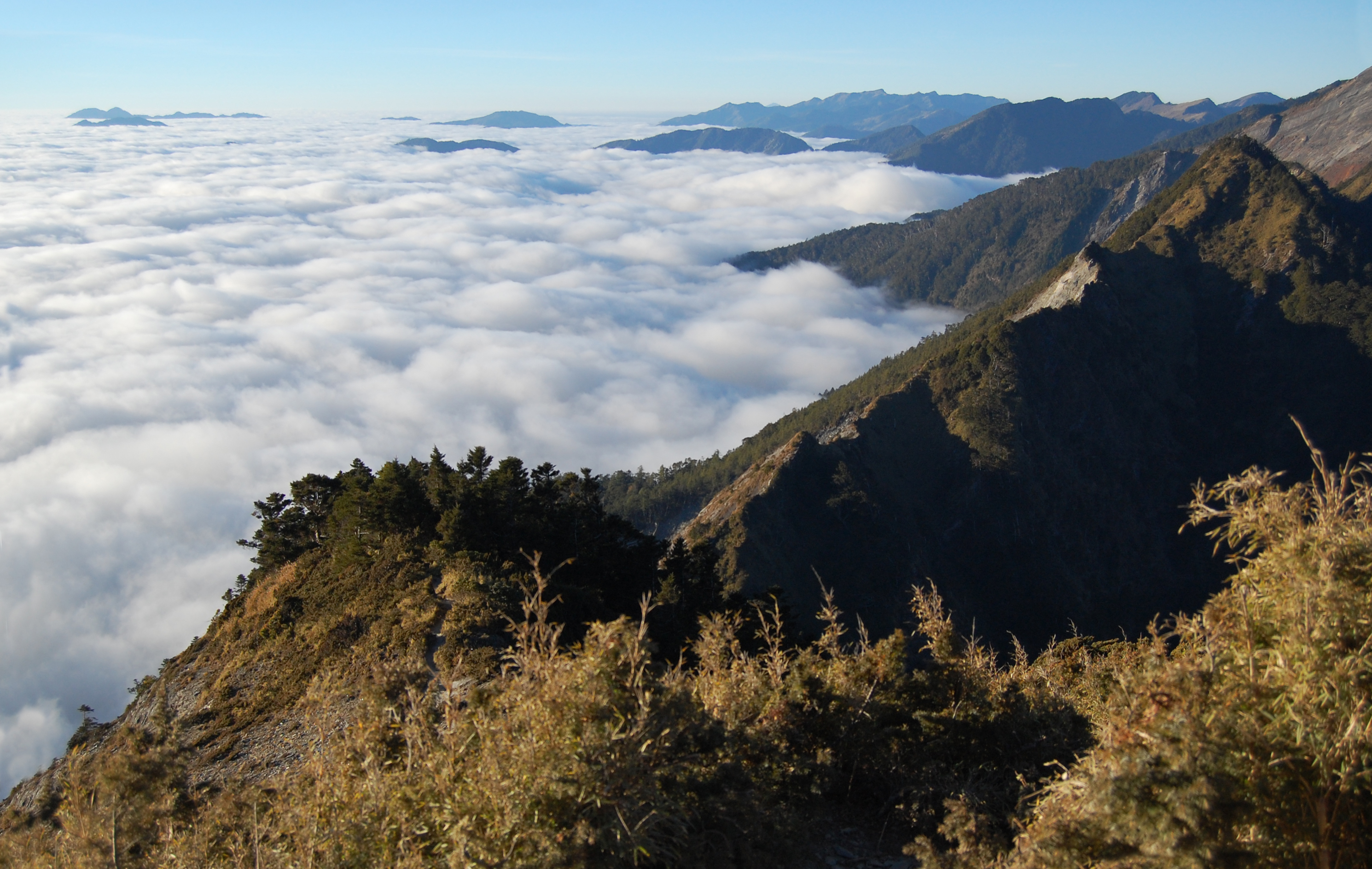 Guanshanling Mountain Trail, Taiwan